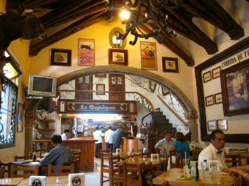 Coyoacán, Mexico City.